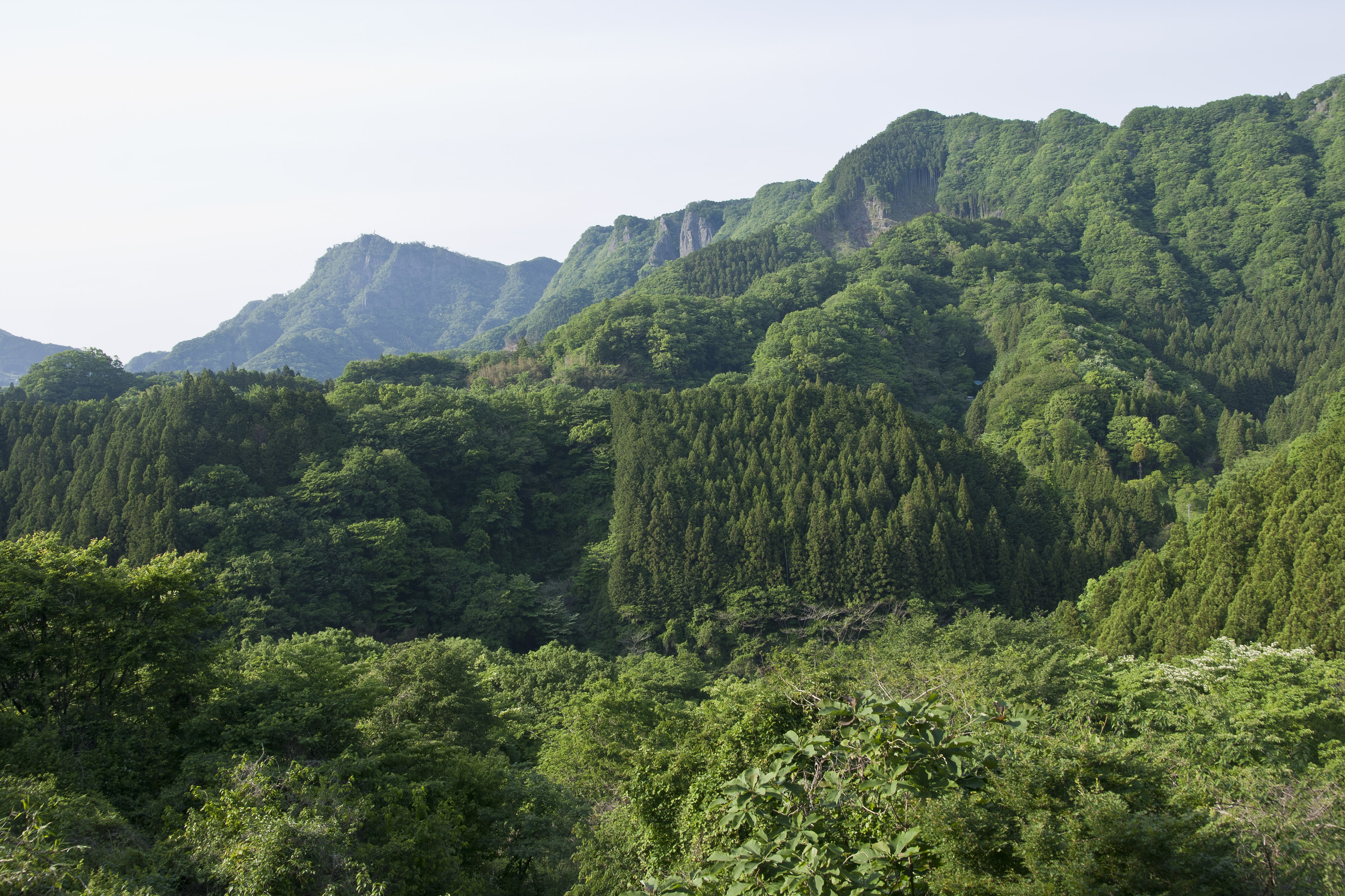 Mount Okukuji-Nantai(Okukuji-nantai-san おくくじなんたいさん 奥久慈男体山), Ibaraki Pref., Japan